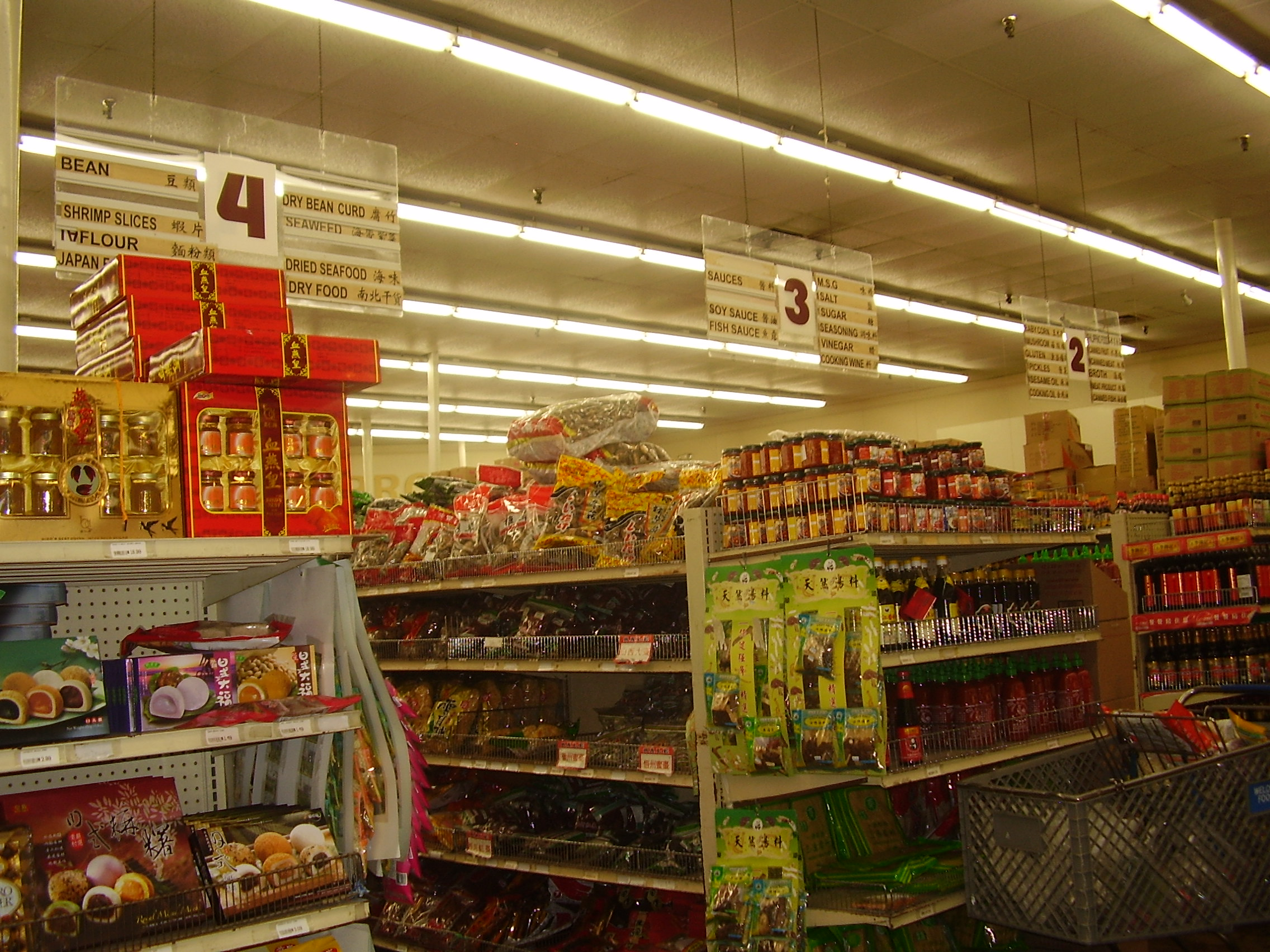 Aisles of the Welcome Food Center中文（中国大陆）: 惠康超級市场的过道